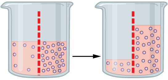 Caption: Osmosis is the diffusion of water through a semipermeable membrane down its concentration gradient. If a membrane is permeable to water, though not to a solute, water will equalize its own concentration by diffusing to the side of lower water concentration (and thus the side of higher solute concentration). In the beaker on the left, the solution on the right side of the membrane is hypertonic. Red line is a semi-permeable membrane. URL: Version 8.25 from the Textbook OpenStax Anatomy and Physiology Published May 18, 2016 Other versions: English original Cleaned (no text) Cymraeg